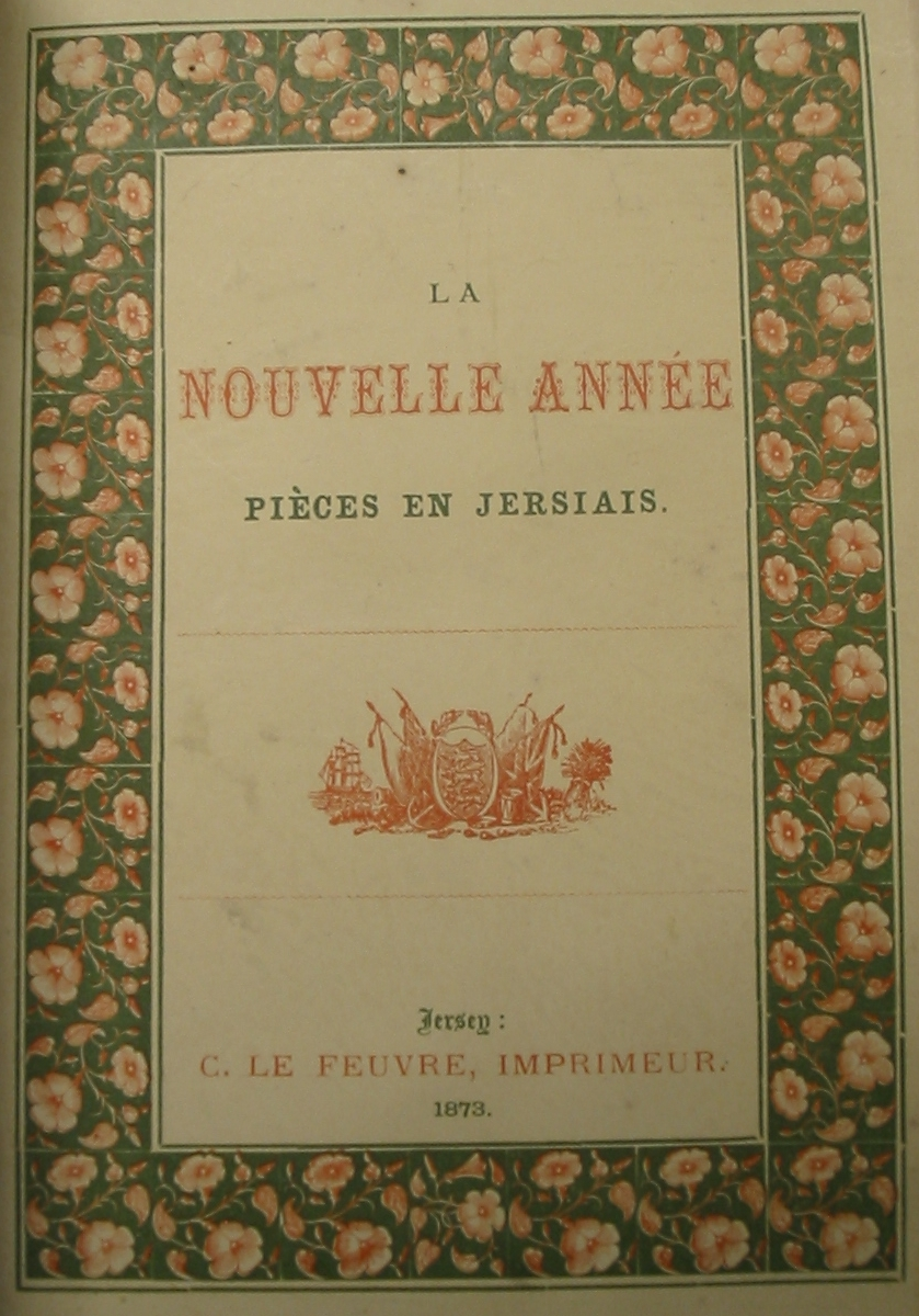 Cover of anthology of Jèrriais poetry, La Nouvelle Année, published in 1873 and edited by Augustus Asplet Le Gros (1840-1877).